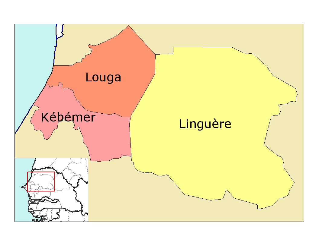 Map of the departments of Louga region in Senegal. Created by Rarelibra 22:31, 28 December 2006 (UTC) for public domain use, using MapInfo Professional v8.5 and various mapping resources.